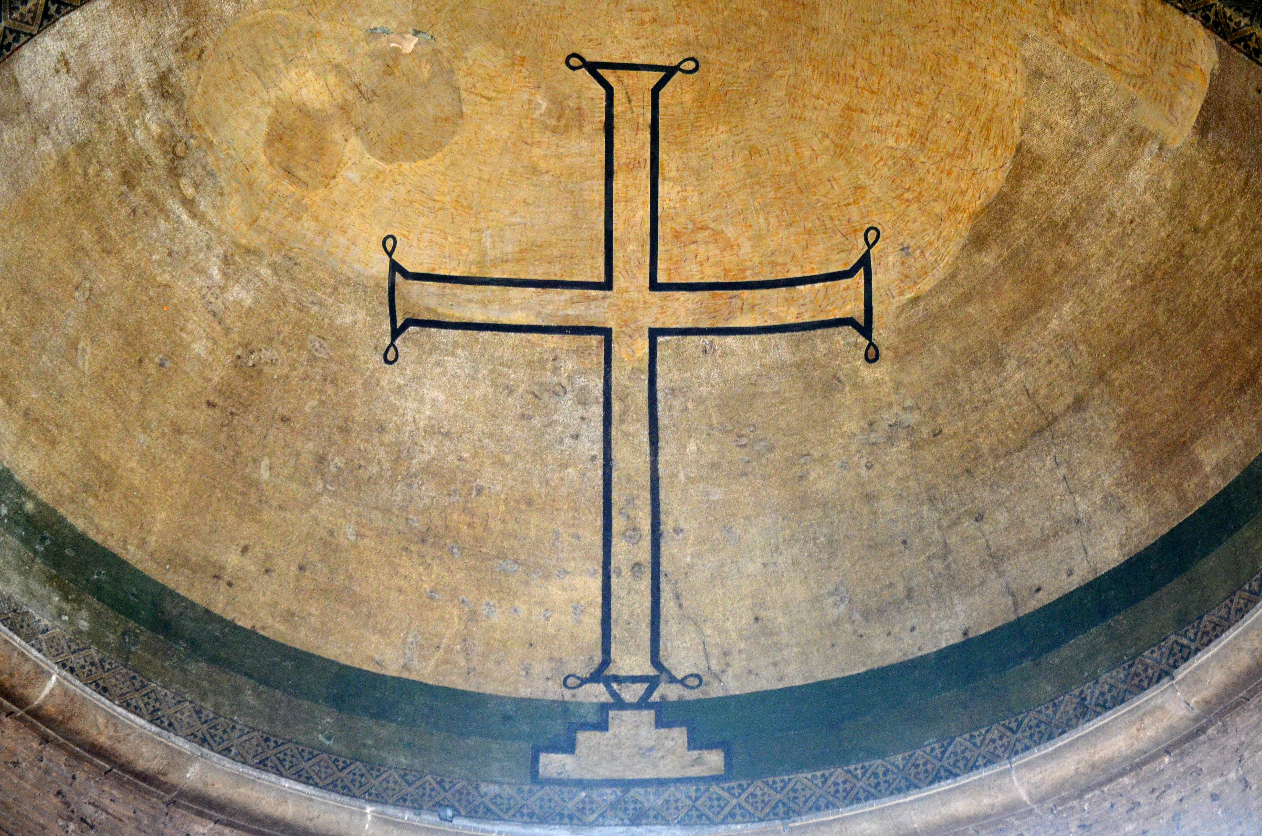 The Hagia Irene stands on what is believed to be the oldest site of Christian worship in Istanbul. Roman Emperor Constantine I ordered the church in the 4th century, making it the first church built in Constantinople. After being burned down during the Nike revolt in 532, Emperor Justinian I had the church restored in 548. By then the Patriarchate had already moved to the Hagia Sophia, which was completed in 537. Restorations were again required in the 8th century after severe damages caused by an earthquake.